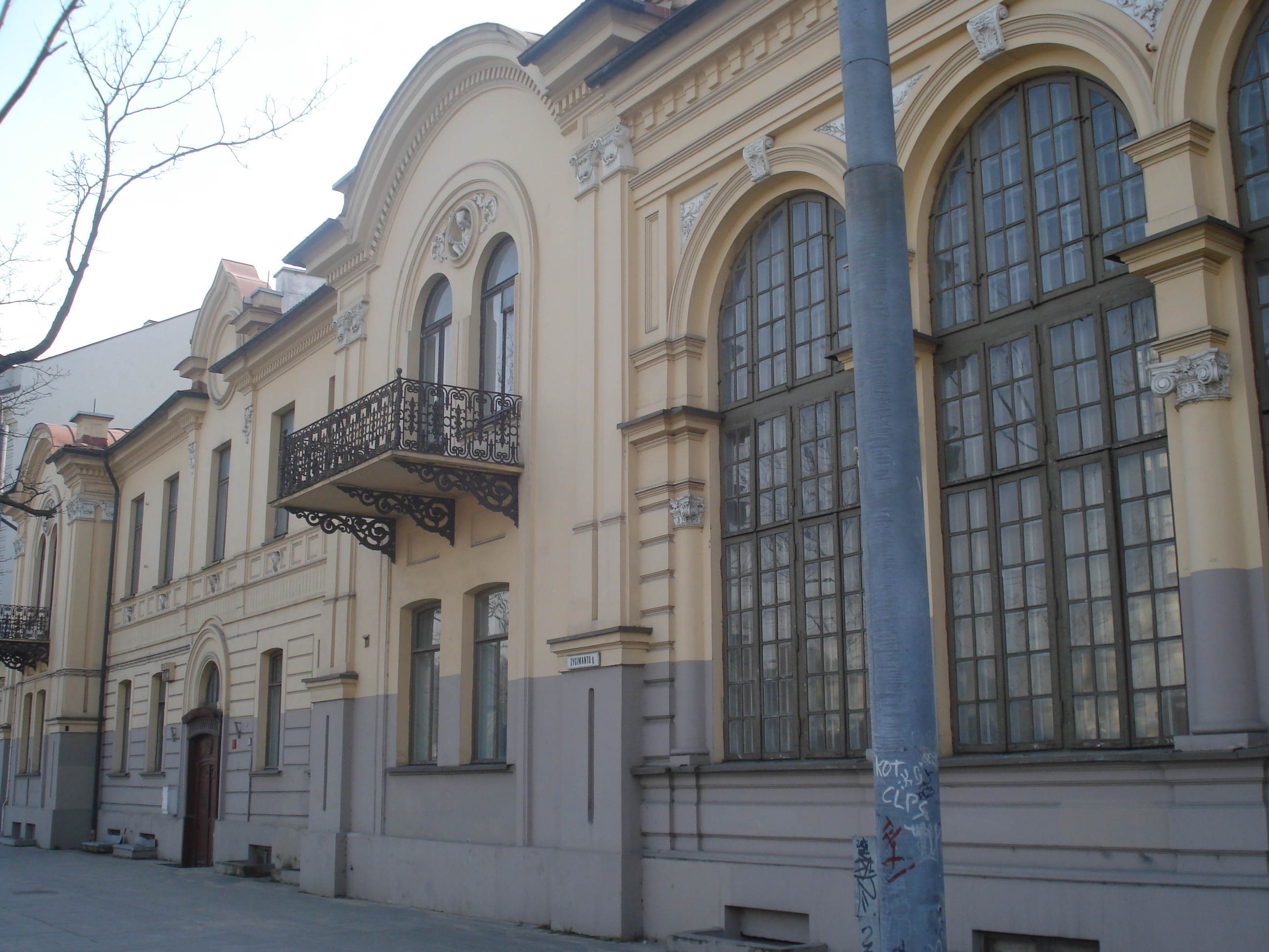 The palace of Józef Tyszkiewicz in Vilnius. Žygimantų g. 3. 1891—1895. Architect Cyprian Maculewicz.